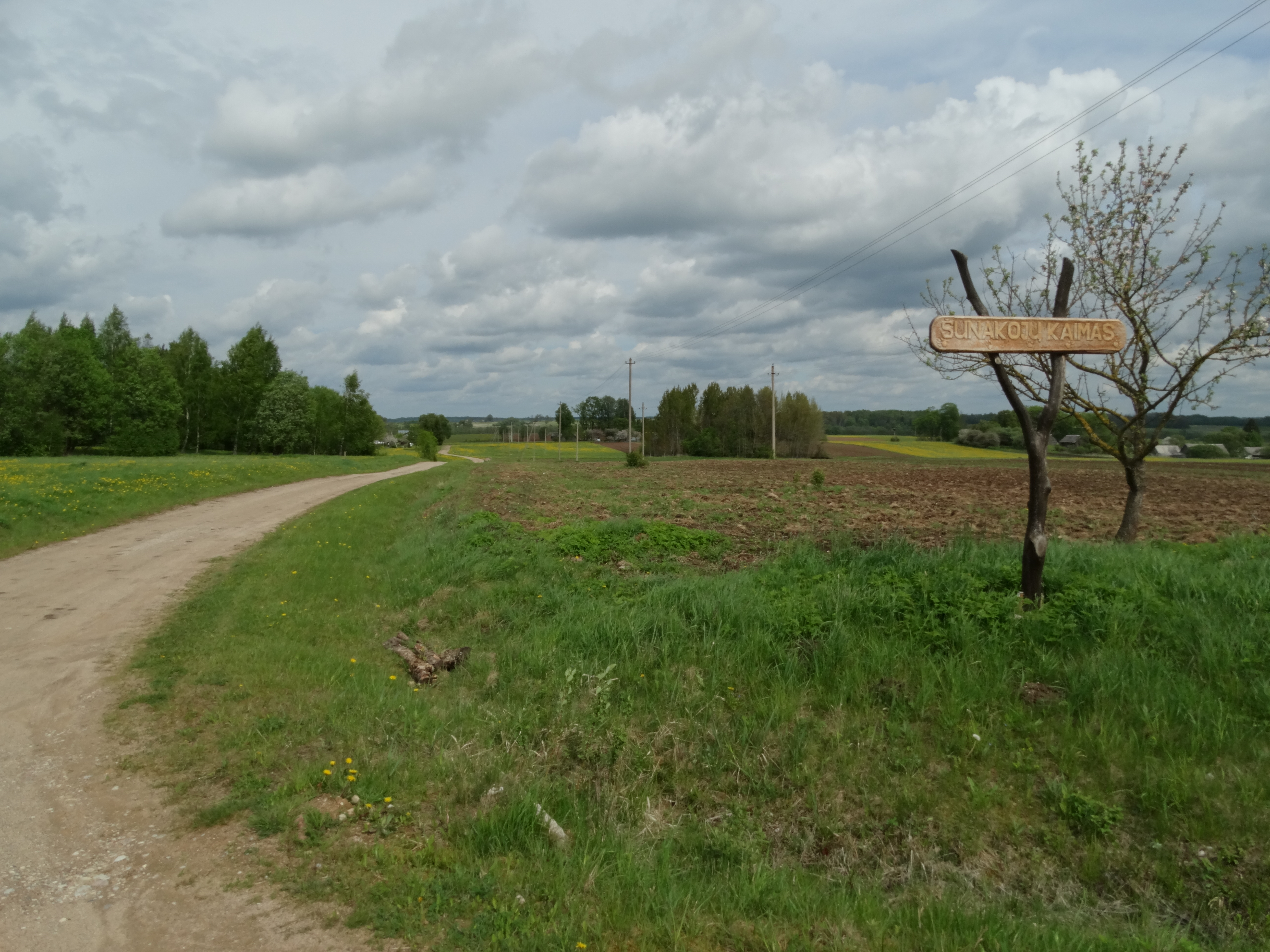 Šunakojai, Molėtai District, Lithuania